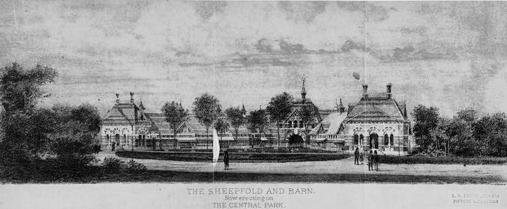 The sheepfold and barn : now erecting on the Central Park. New York Public Library Image ID: 800907. Built in 1870 [1]